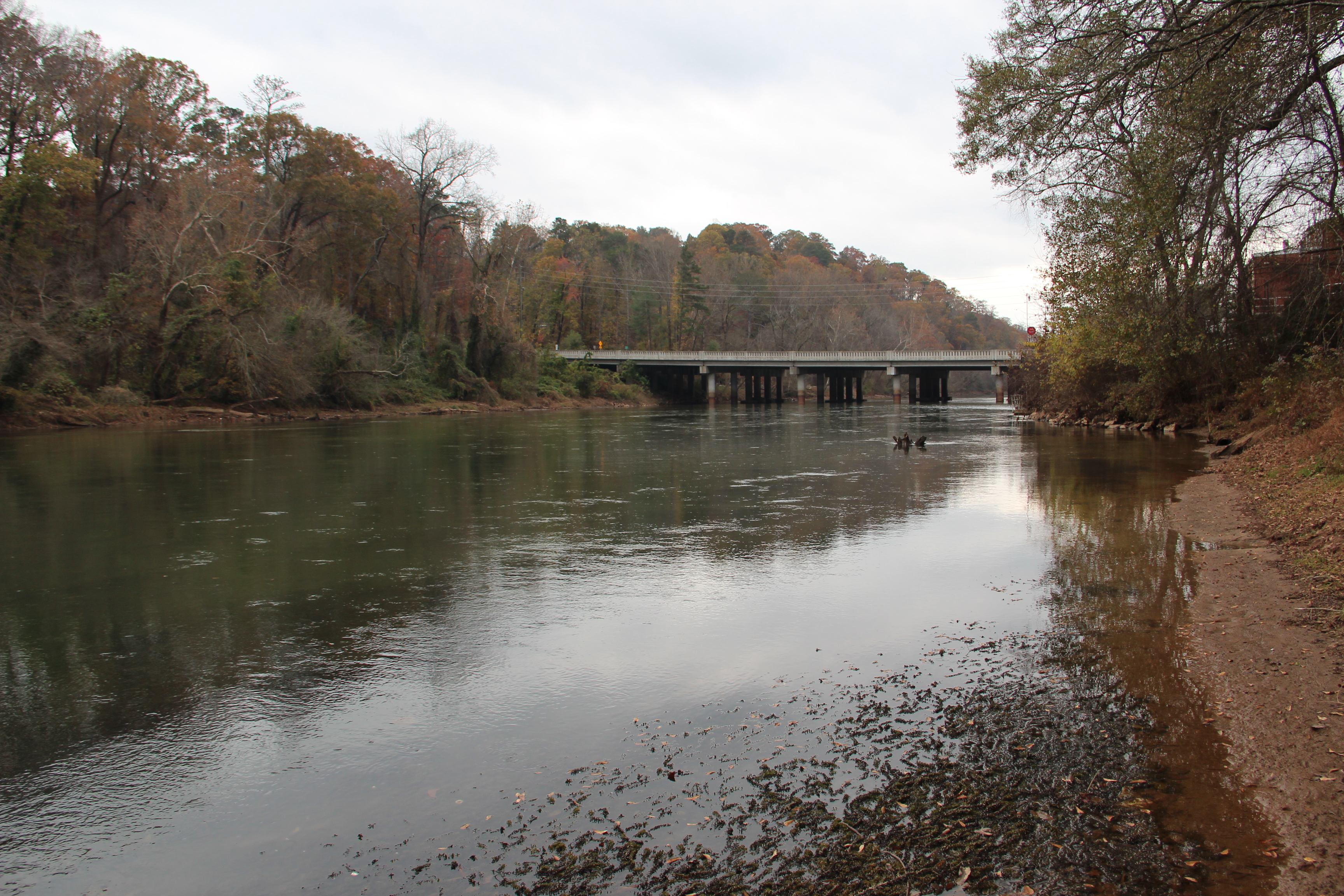 Chattahooche River at the Johnson Ferry Unit